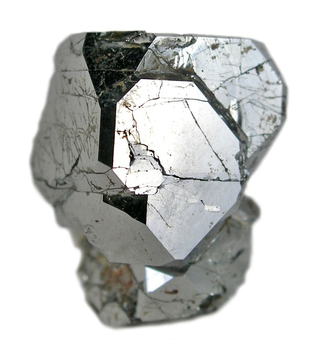 Sperrylite Locality: Talnakh Cu-Ni Deposit, Noril'sk, Putoran Plateau, Taimyr Peninsula, Taymyrskiy Autonomous Okrug, Eastern-Siberian Region, Russia (Locality at ) Size: thumbnail, 1.9 x 1.3 x 1.2 cm Sperrylite This locality has arguably produced the finest sperrylite specimens around. These crystals are huge, with the largest being 1.3 cm across. All large sperrylites have some cracking, and this is typical of that effect, although they are not as distracting in person as in the photo. This rare platinum arsenide has mirror bright luster, is silvery-gray, and has a high specific gravity. A superb specimen, as the one crystal is perched upon another crystal.